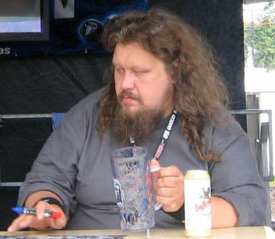 Former Finntroll singer Tapio Wilska at a the Meet & Greet at Wacken Open Air 2005.